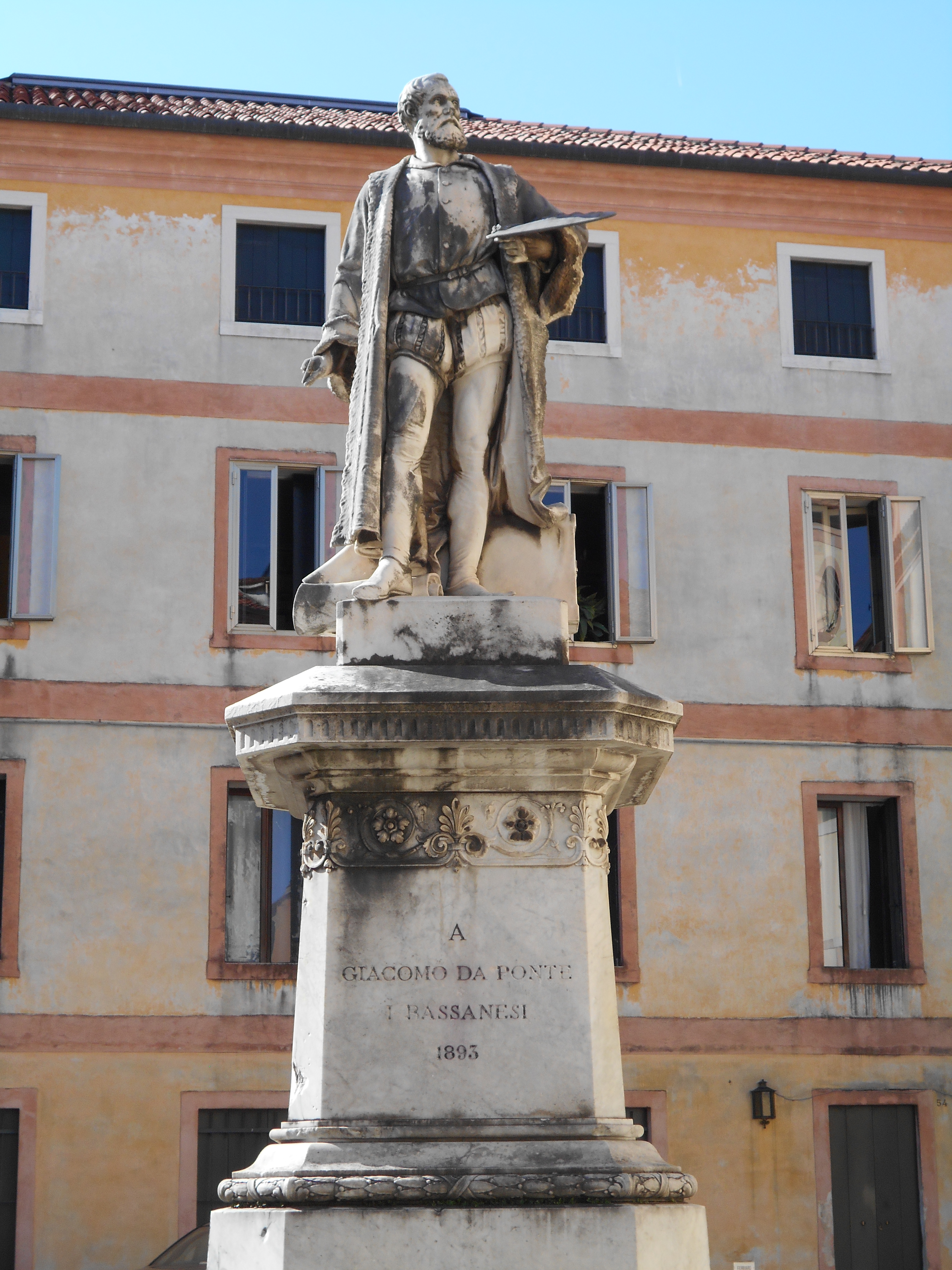 Jacopo da Ponte monument, Bassano del Grappa